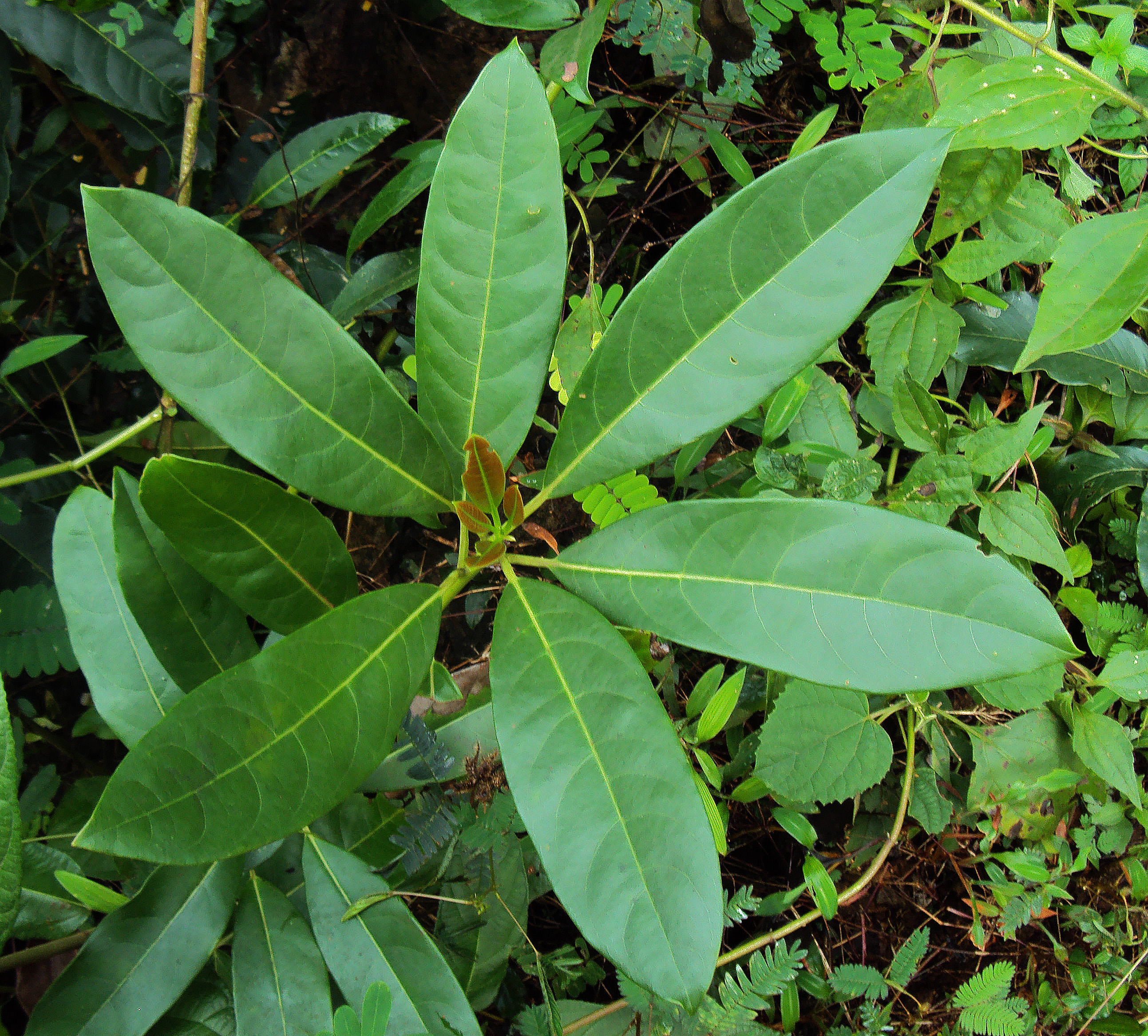 Persea macrantha - Large-Flowered Bay Tree - കുളമാവ്